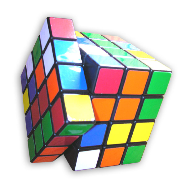 This is my Rubik's Revenge with a tilted side. Released under the GFDL.